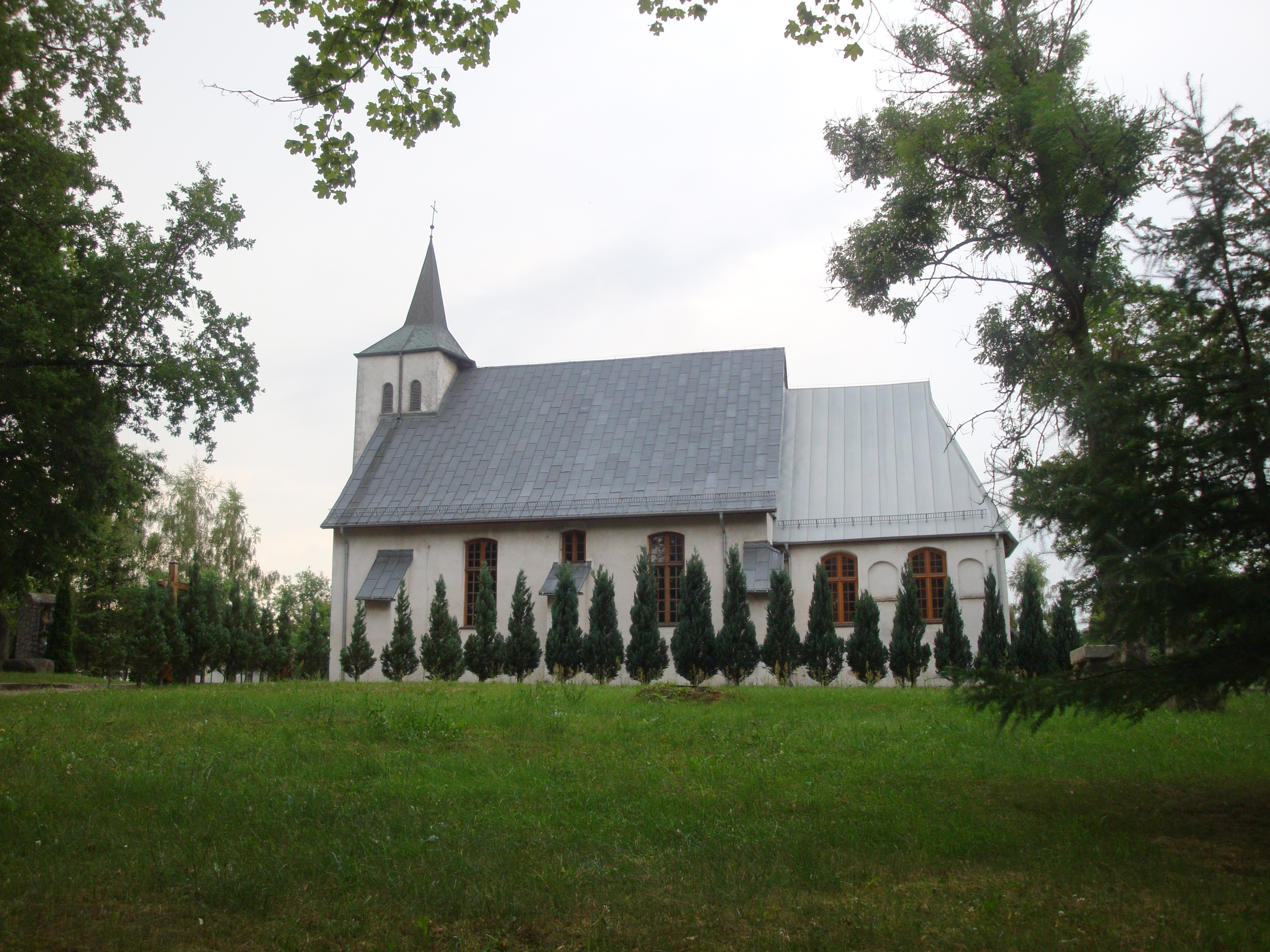 Charbrowo-village in Gmina Wicko, Poland. St. Joseph church